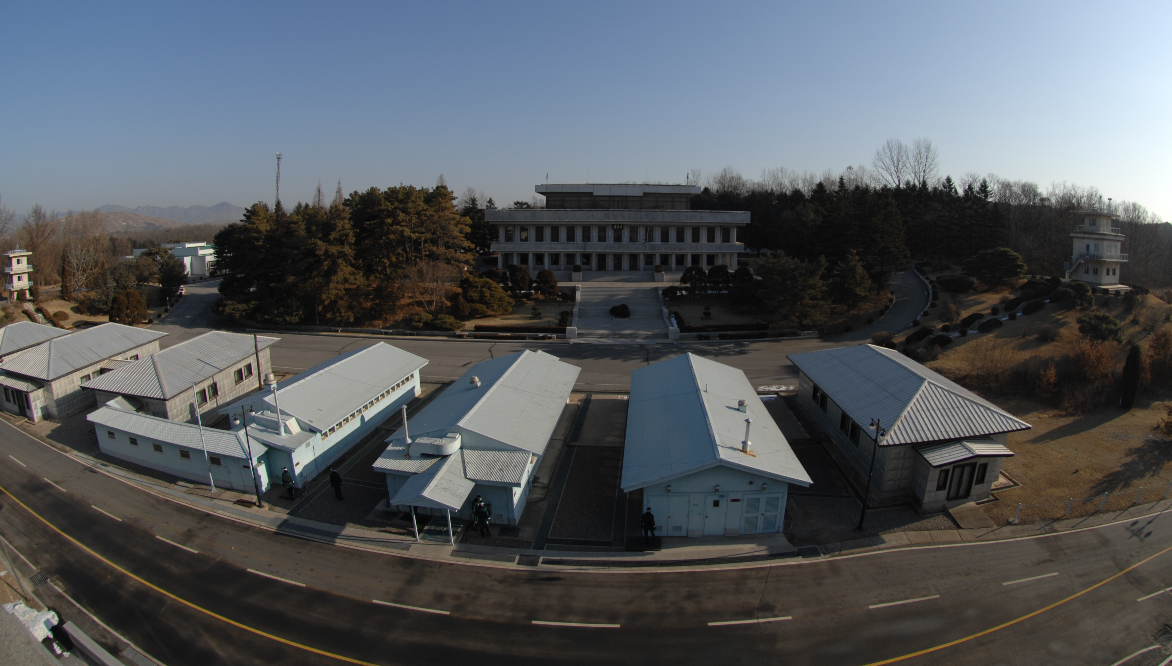 Joint Security Area, Conference Row. View from the south.